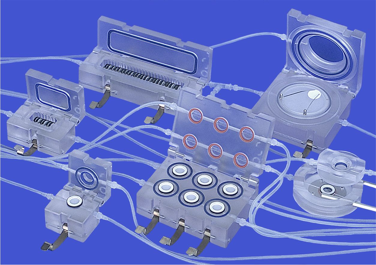 Selection of perfusion containers